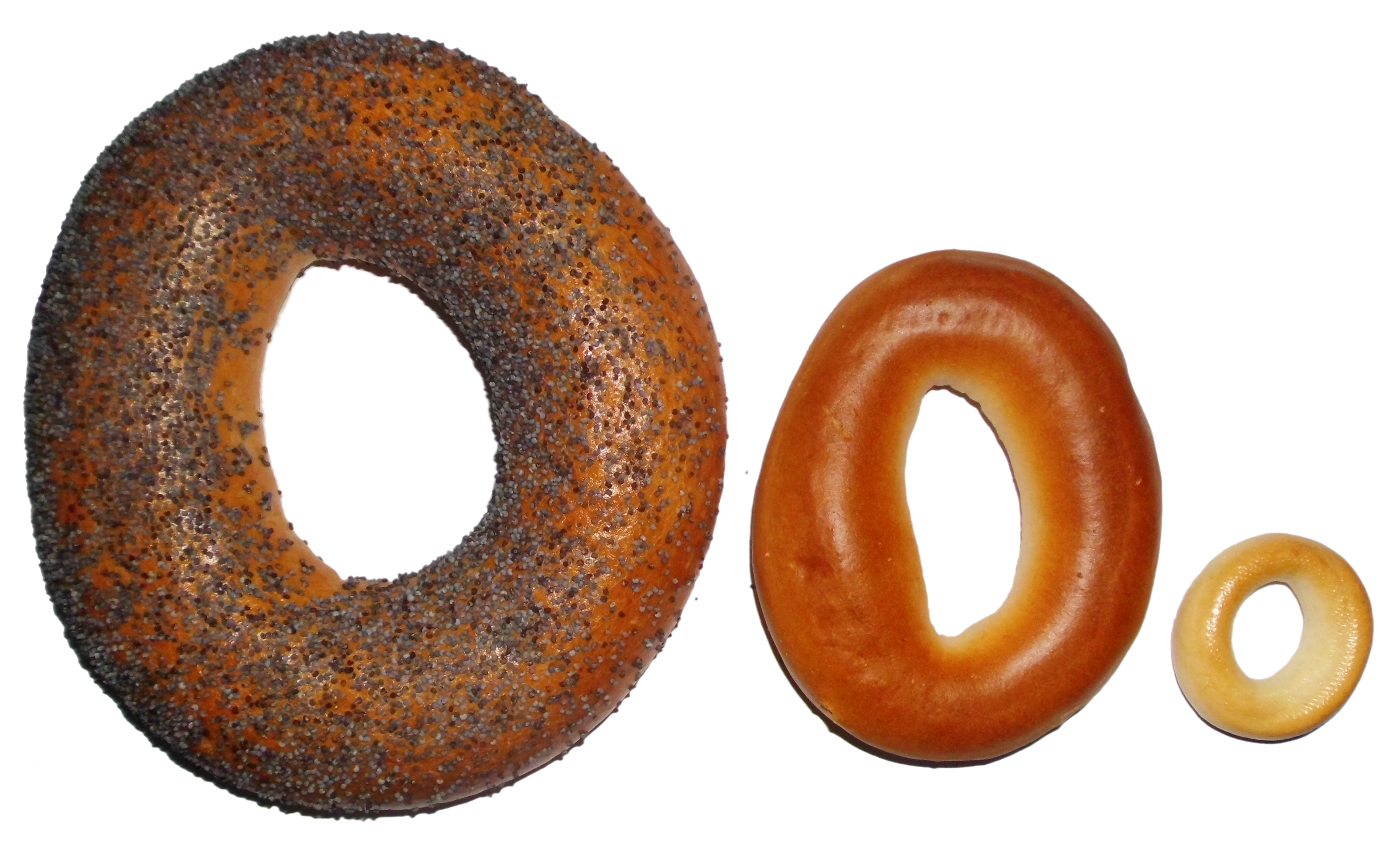 Bublik (topped with poppy seeds), baranka, sushka